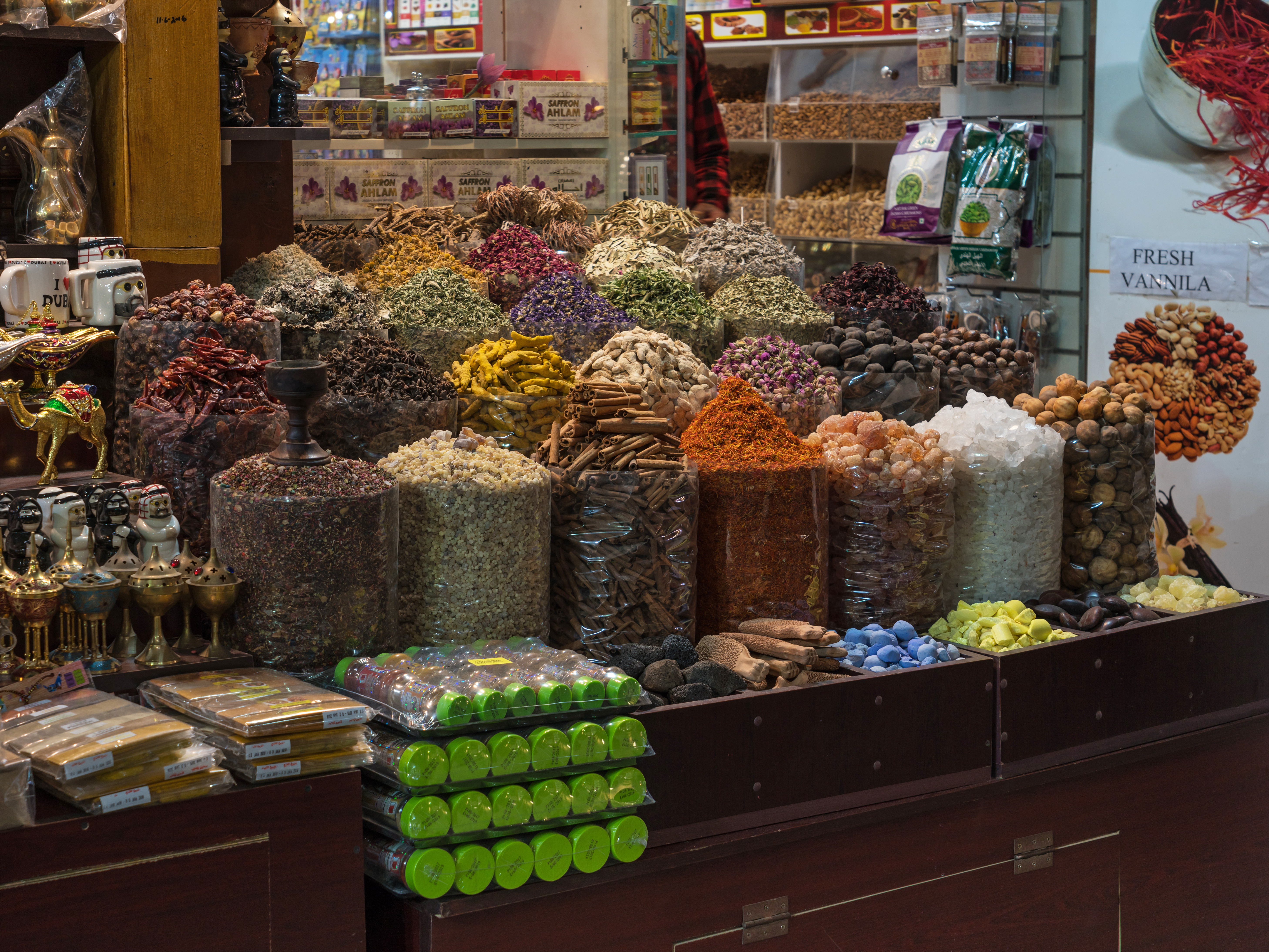 Spice Souq in Dubai / United Arab Emirates